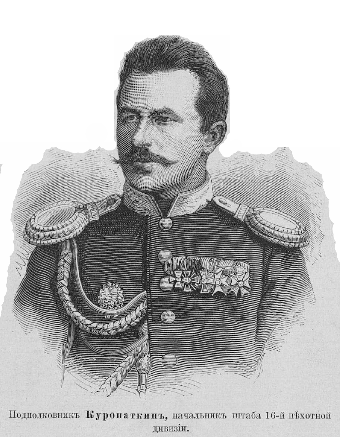 Kuropatkin, Aleksey Nikolayevich